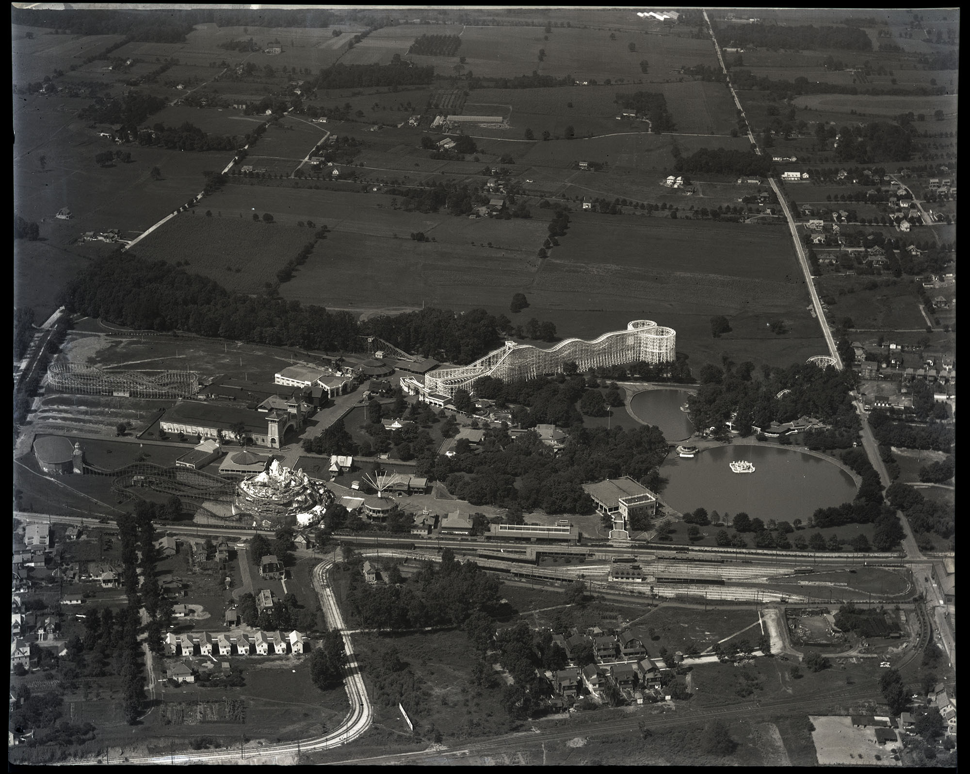 Aerial views of Willow Grove Park in Willow Grove, Pennsylvania by the Aero Service Corporation. Amusement park rides, including two roller coasters, are visible along with two ponds. Croplands and residential housing are visible in the area surrounding the park. View is southeast to northwest. Moreland Road, Old Welsh Road and the train station are also visible. Probably taken September 1926. asc-p-8990-6571 Link to record on IMPAC, the Library Company's digital collections catalog